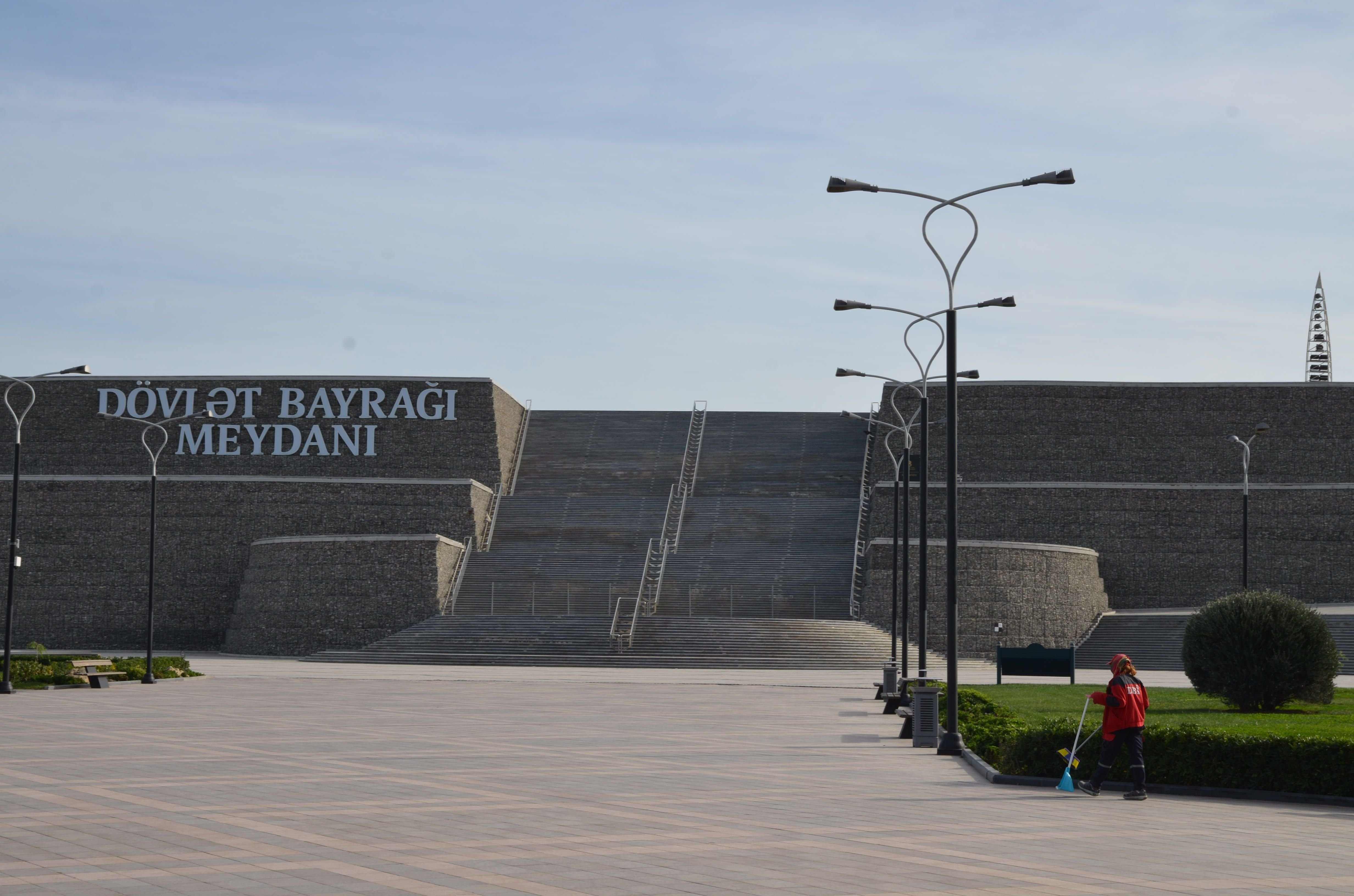 Image of the shut down National Flag Square and the dismounted Flag Post